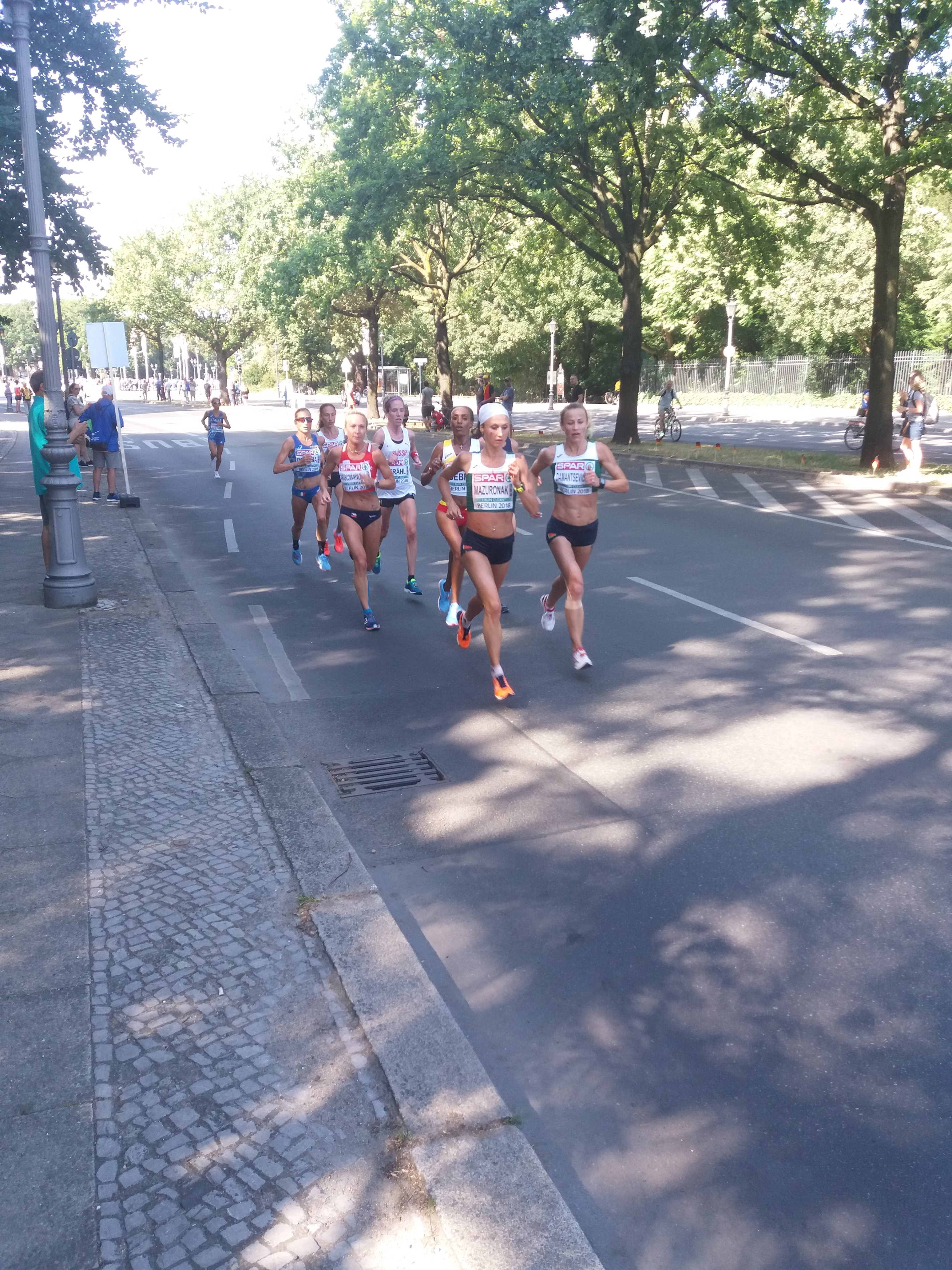 Marathon at the 2018 European Athletics Championships